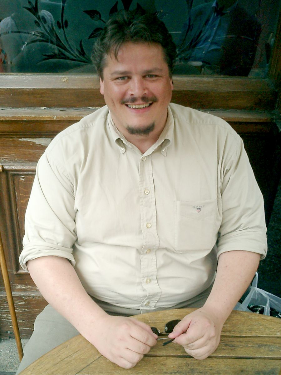 Andreas Heldal-Lund, operator of (Operation Clambake).